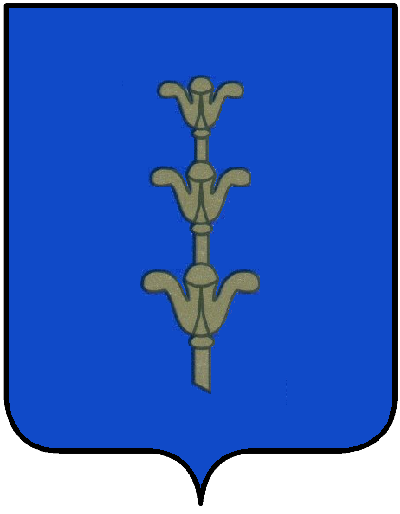 This image has been taken from Italian wikipedia: [1]